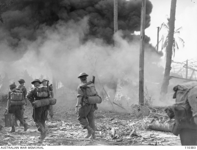 Soldiers of 2/12th Australian Infantry Battalion passing oil fired during the Battle of Balikpapan (1945)